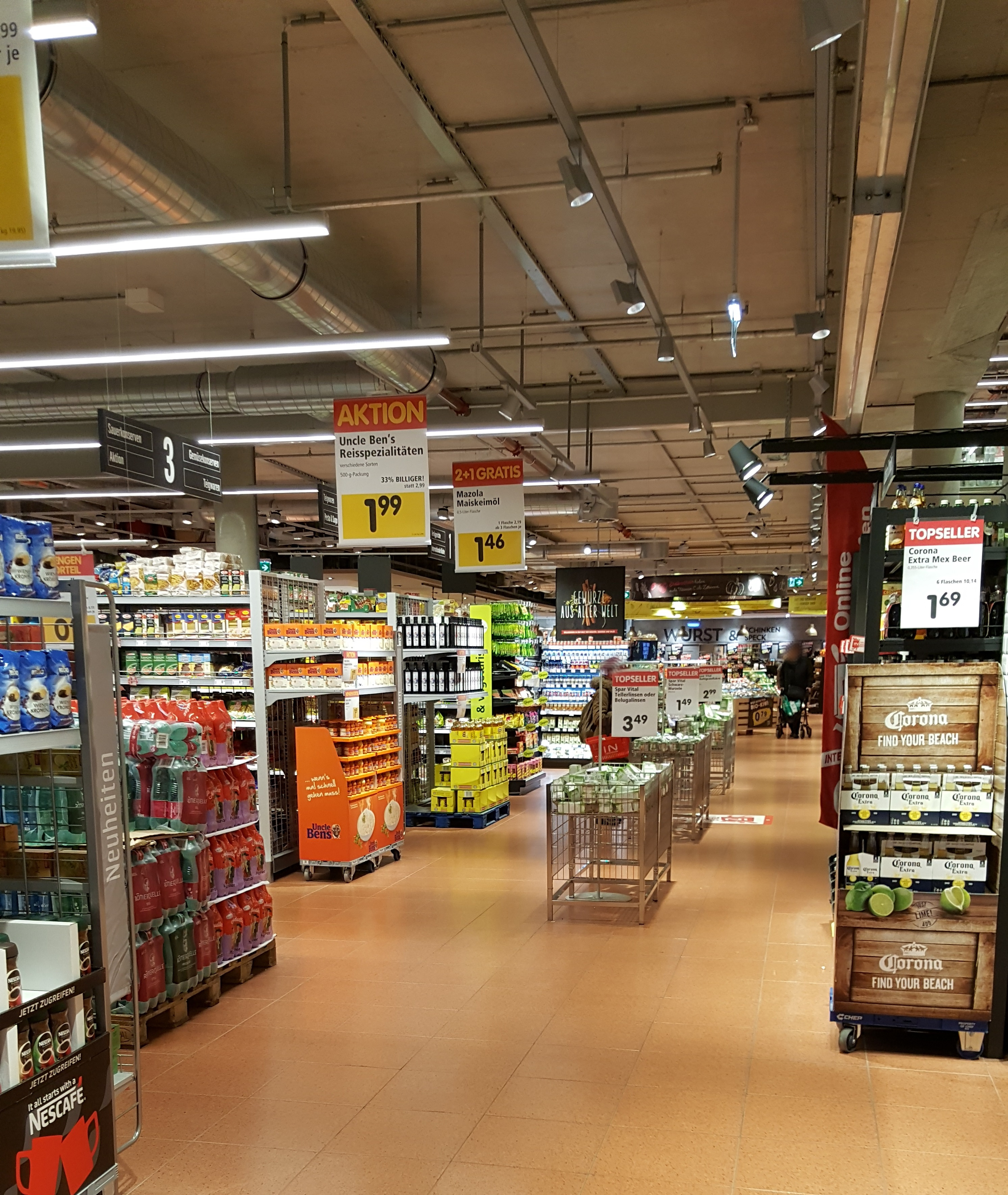 Hypermarket Interspar Austria in Vienna - Floridsdorf